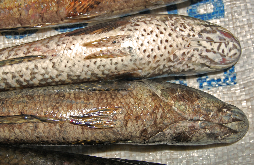 Comparison of Channa striata (upper) and C. lucius (lower), ventral view of front part of the body. From Mentaya Hulu, Central Kalimantan, Indonesia.